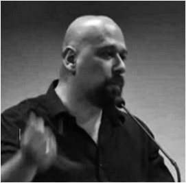 matteo meschiari